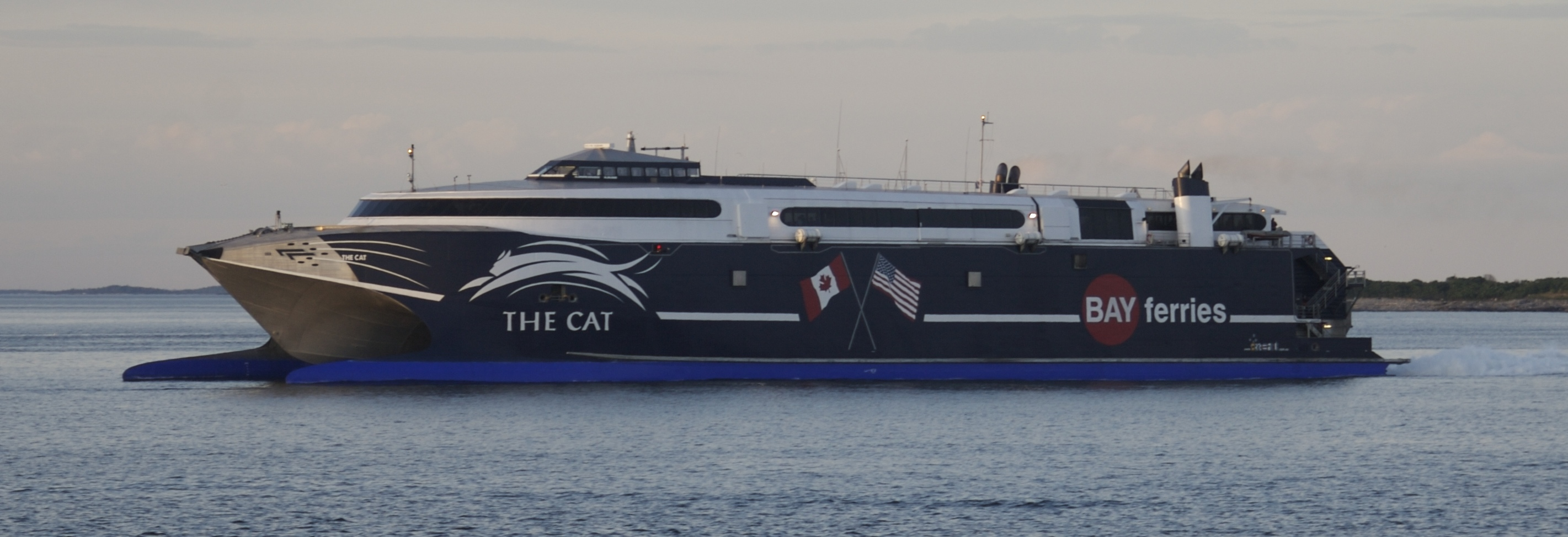 The Cat Ferry headed to Portland from Nova Scotia in 2007.